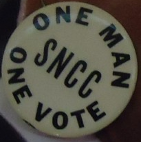 Cropped version of buttons shown at Memorial service for Capitola Dickerson (1913-2012) at St. John's church in Summit, New Jersey, on September 22, 2012 (correct date). Button "One man, one vote" by SNCC.